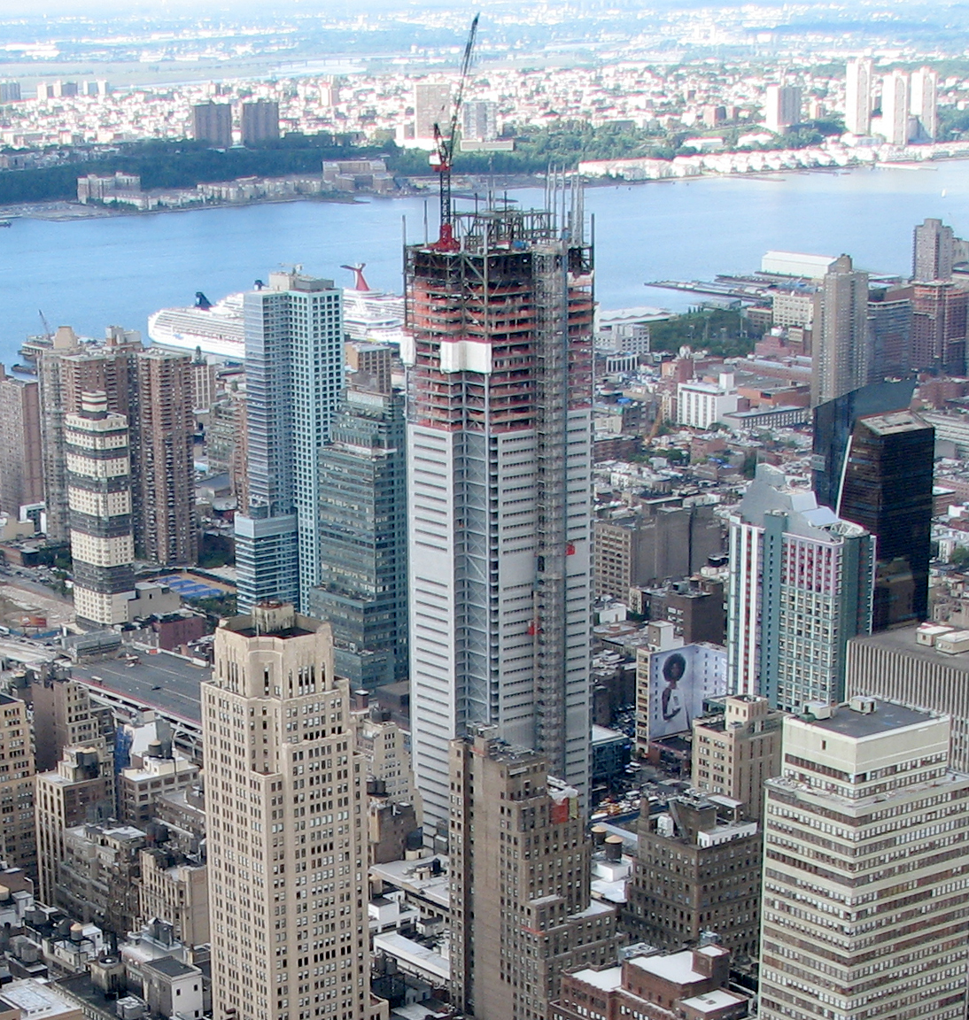 The new New York Times Building under construction. Photographed from the Empire State Building.